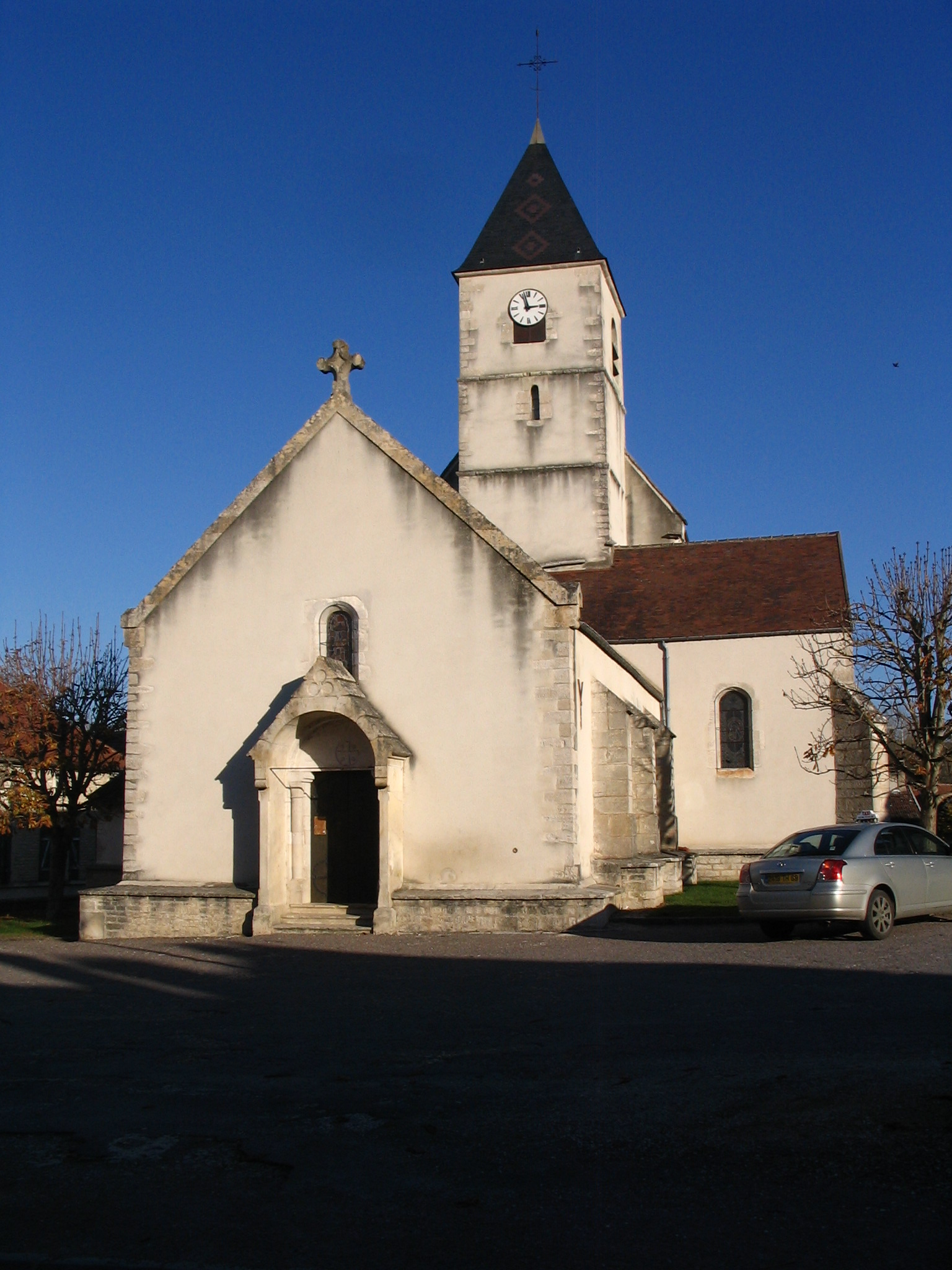 The Roman Catholic church of Nuits, Yonne, France.